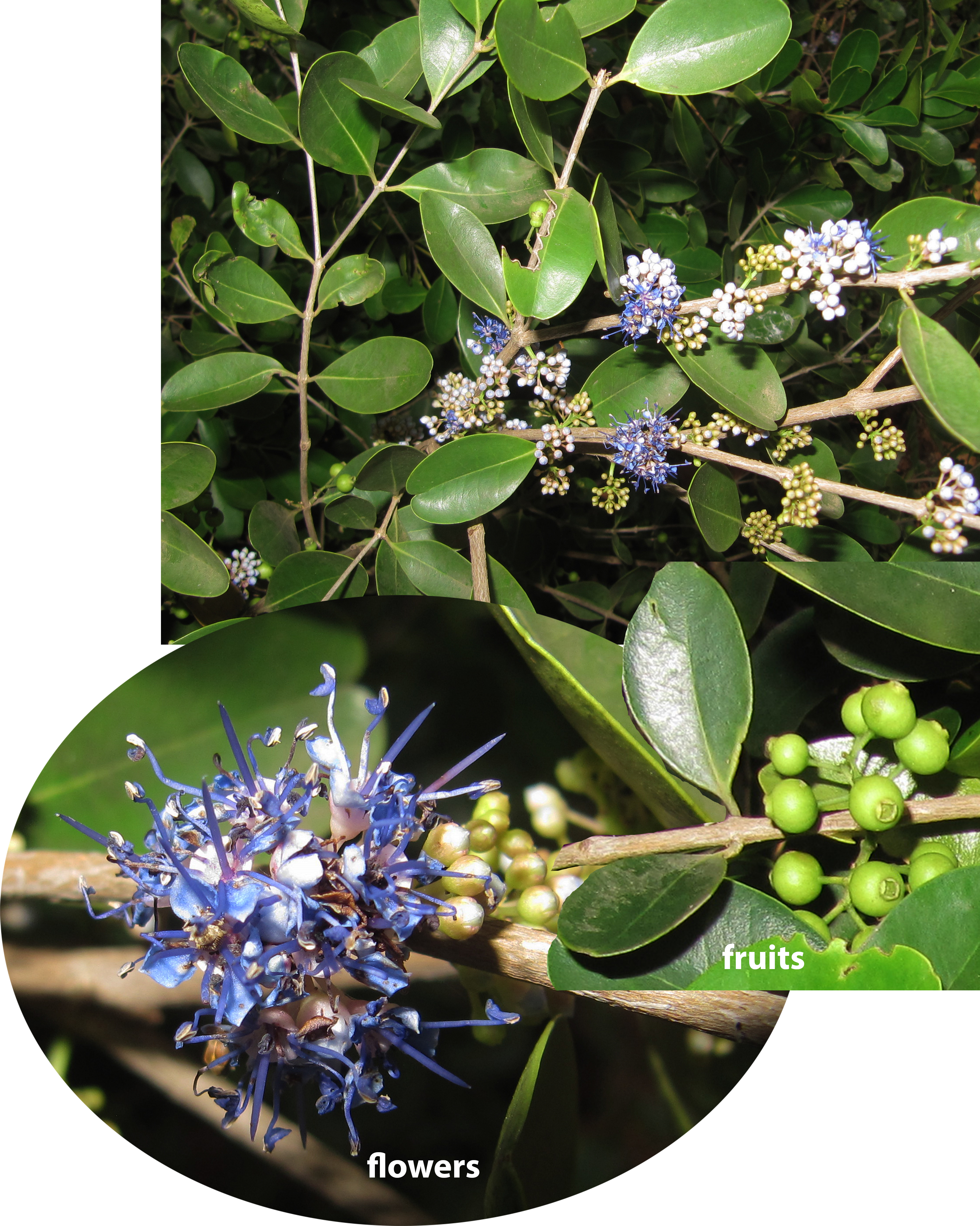 Memecylon pictures taken by Prabha Amarasinghe